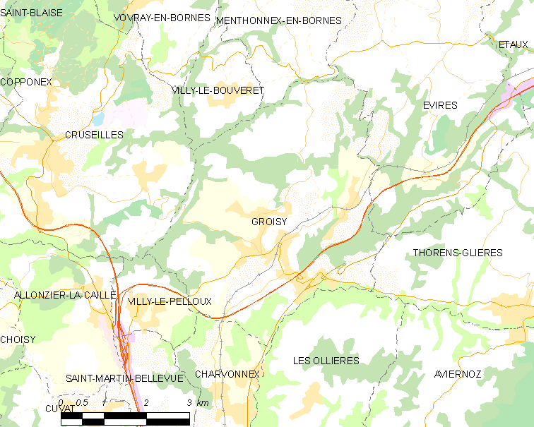 Map of French municipality Groisy